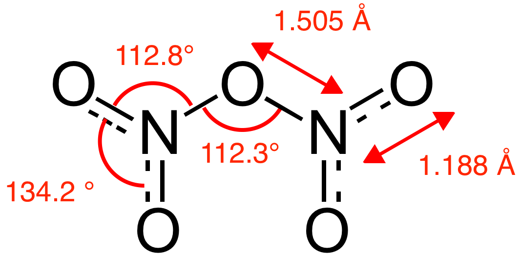 Structure, with bond lengths and angles, of the dinitrogen pentoxide molecule, N2O5, as found in the gas phase. Structural information (determined by gas-phase electron diffraction and computational modelling) from B. M. McClelland, A. D. Richardson, K. Hedberg, A Reinvestigation of the Structure and Torsional Potential of N2O5 by Gas-Phase Electron Diffraction Augmented by Ab Initio Theoretical Calculations, Helv. Chim. Acta, 2001, 84, 1612-1624.